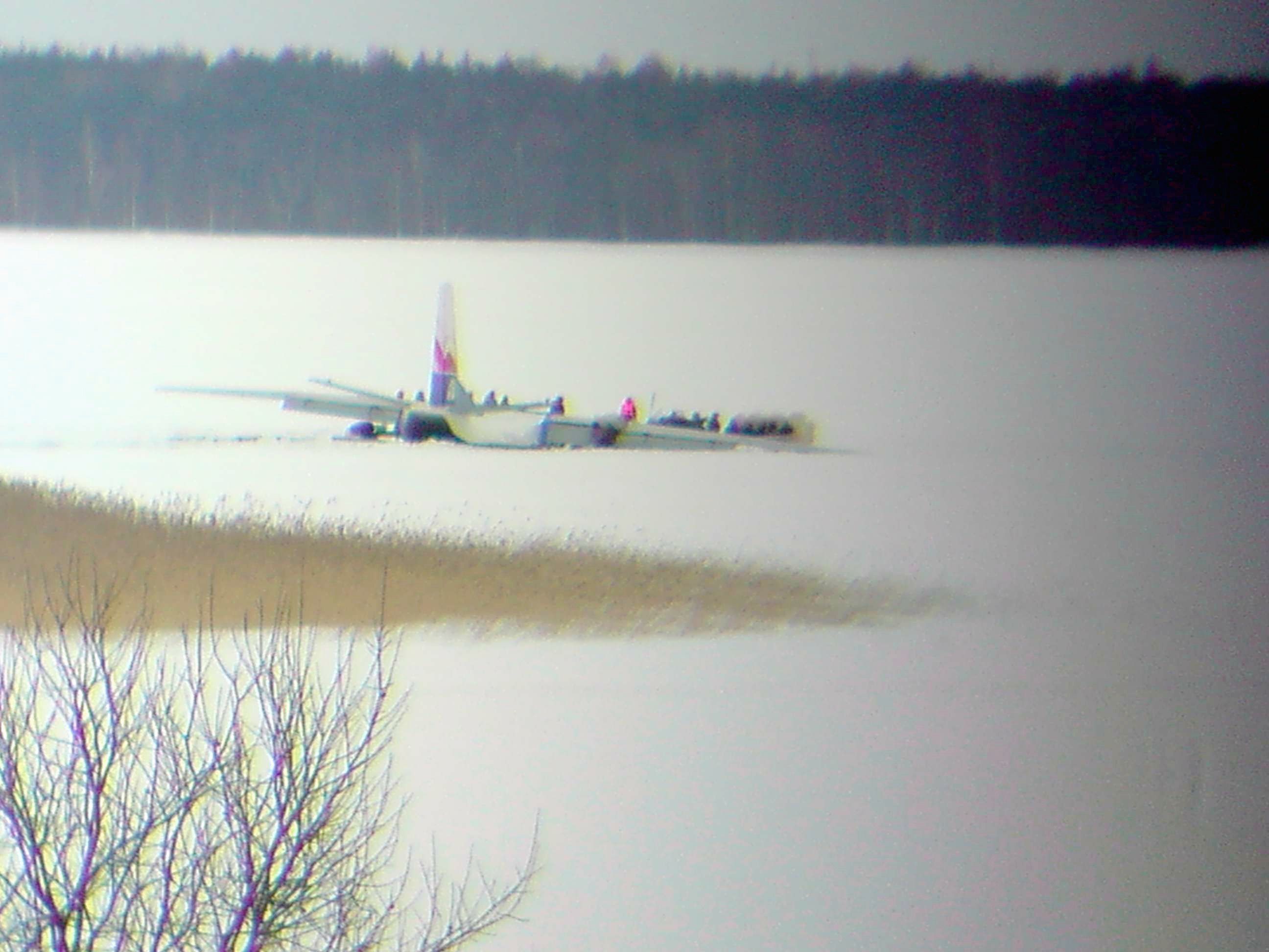 DHL Antonov An-26 aircraft made an emergency landing on the ice of Lake Ülemiste, near Lennart Meri Tallinn Airport in Estonia.